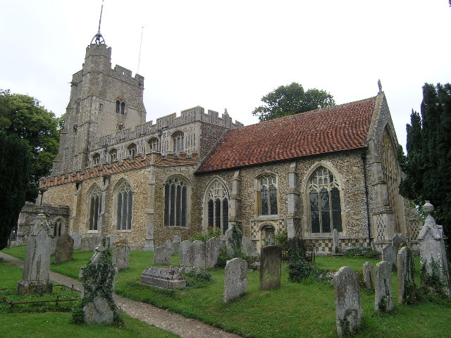 Church of St Mary in Cavendish, Suffolk, England. A Grade I listed medieval church.